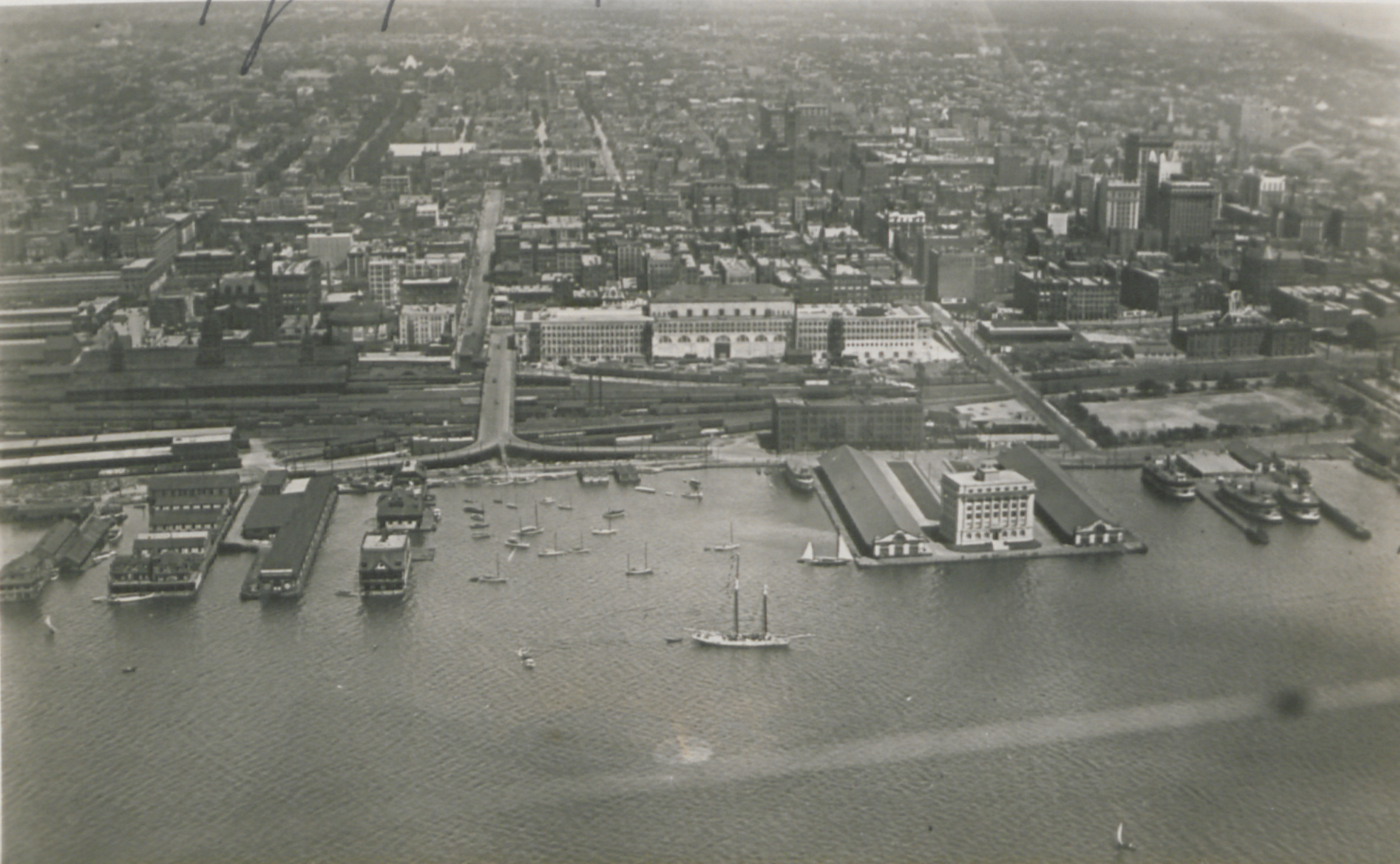 Original caption: “Toronto from the Air.”